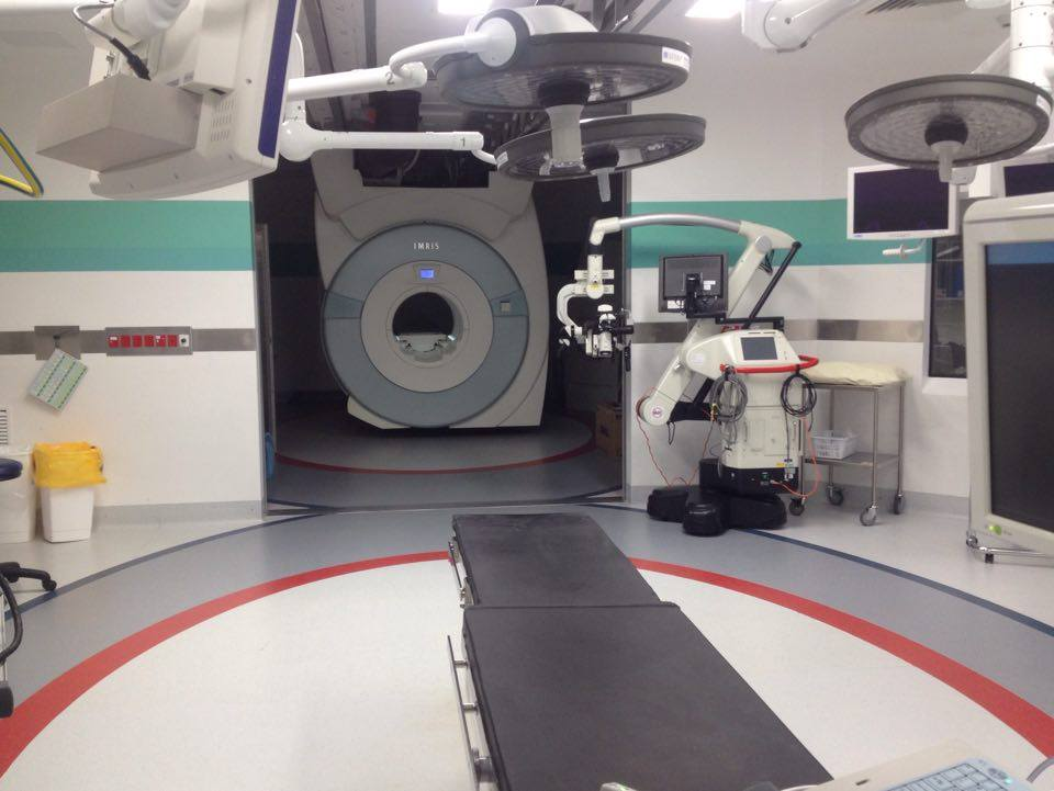 iMRI